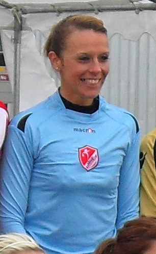 Lincoln Ladies goalie Kay Hawke